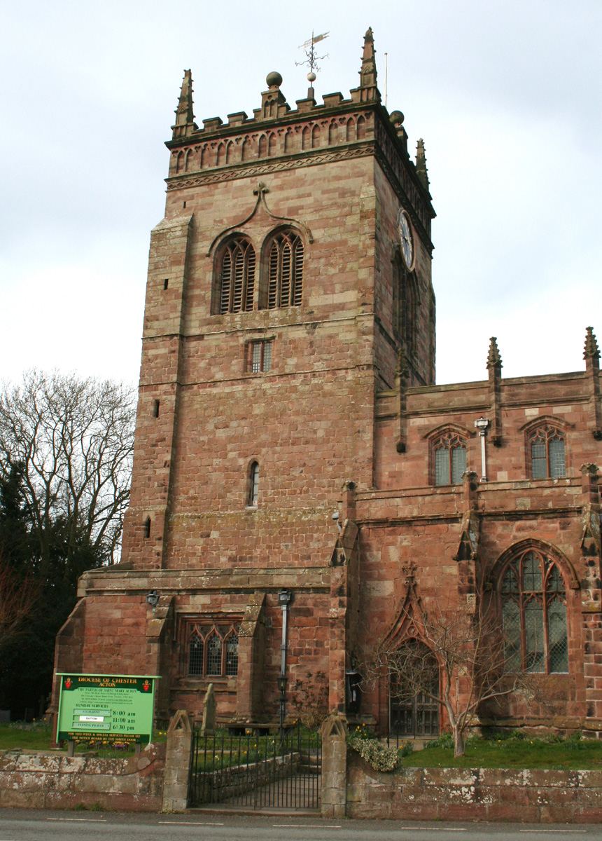 Detail of tower of St Mary's Church, Acton, Cheshire